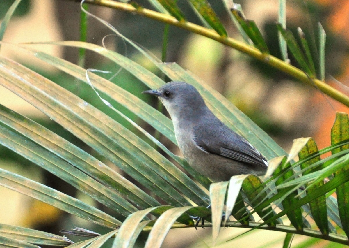 Photographed near mouth of Black River, Mauritius.